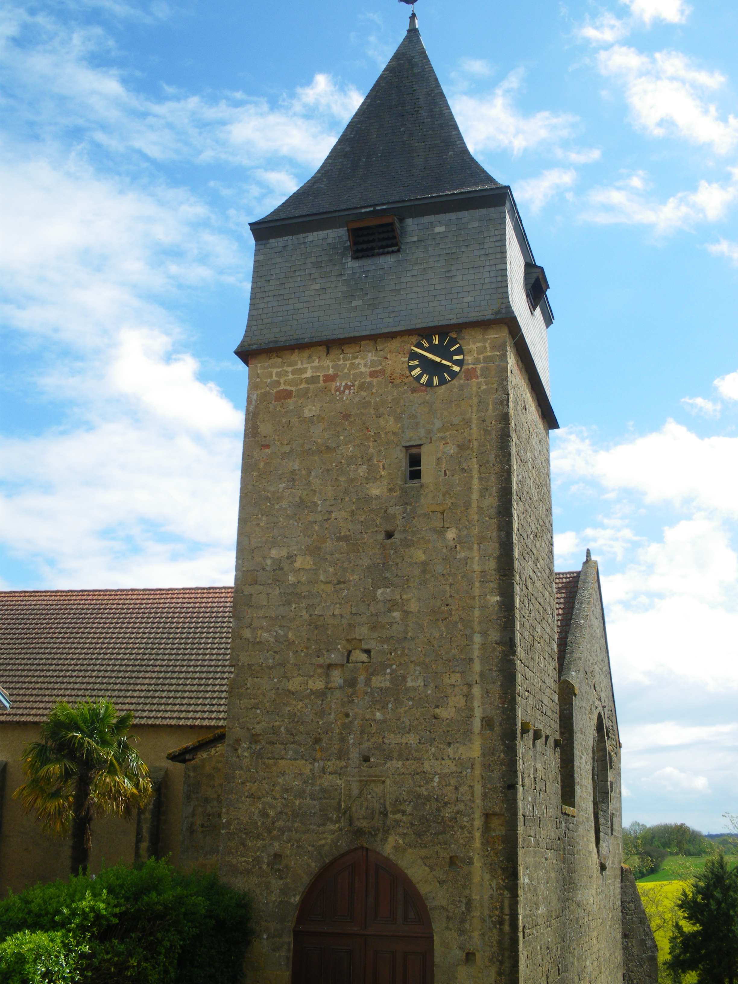 Eglise Sainte Marie de Bassoues (Gers)